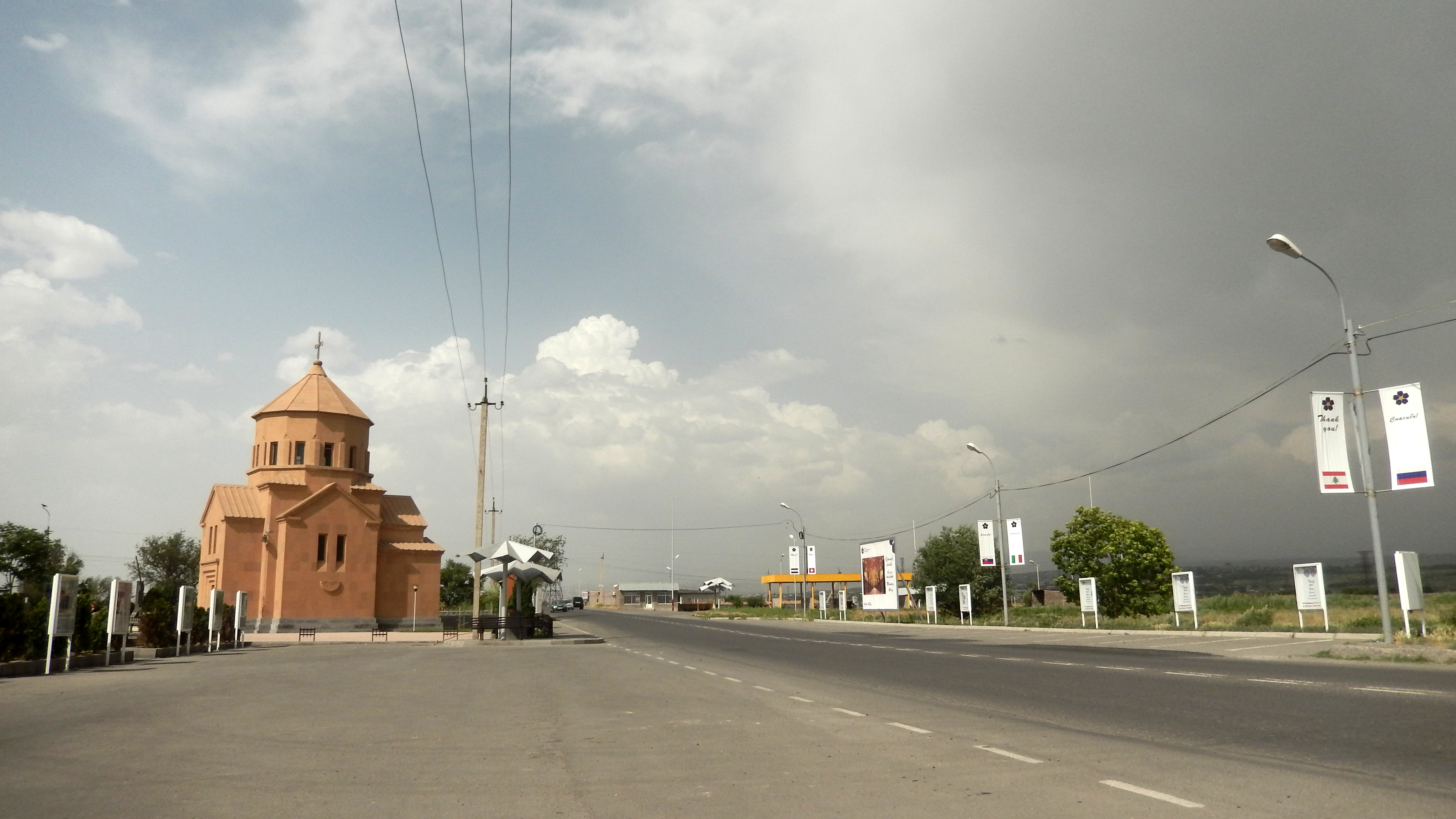 St Gevorg Church, Masis